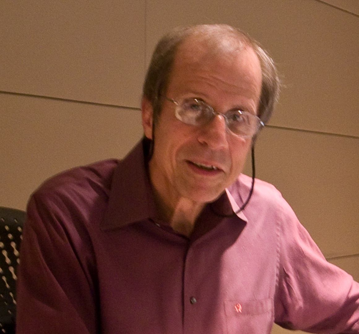 Michael Krasny, host of KQED talk radio show Forum, at the KQED studios. Caption by Sifry: "Michael at his command post. He's a pro, with everything he needs to run his show right in front of hm. He's a master at work."